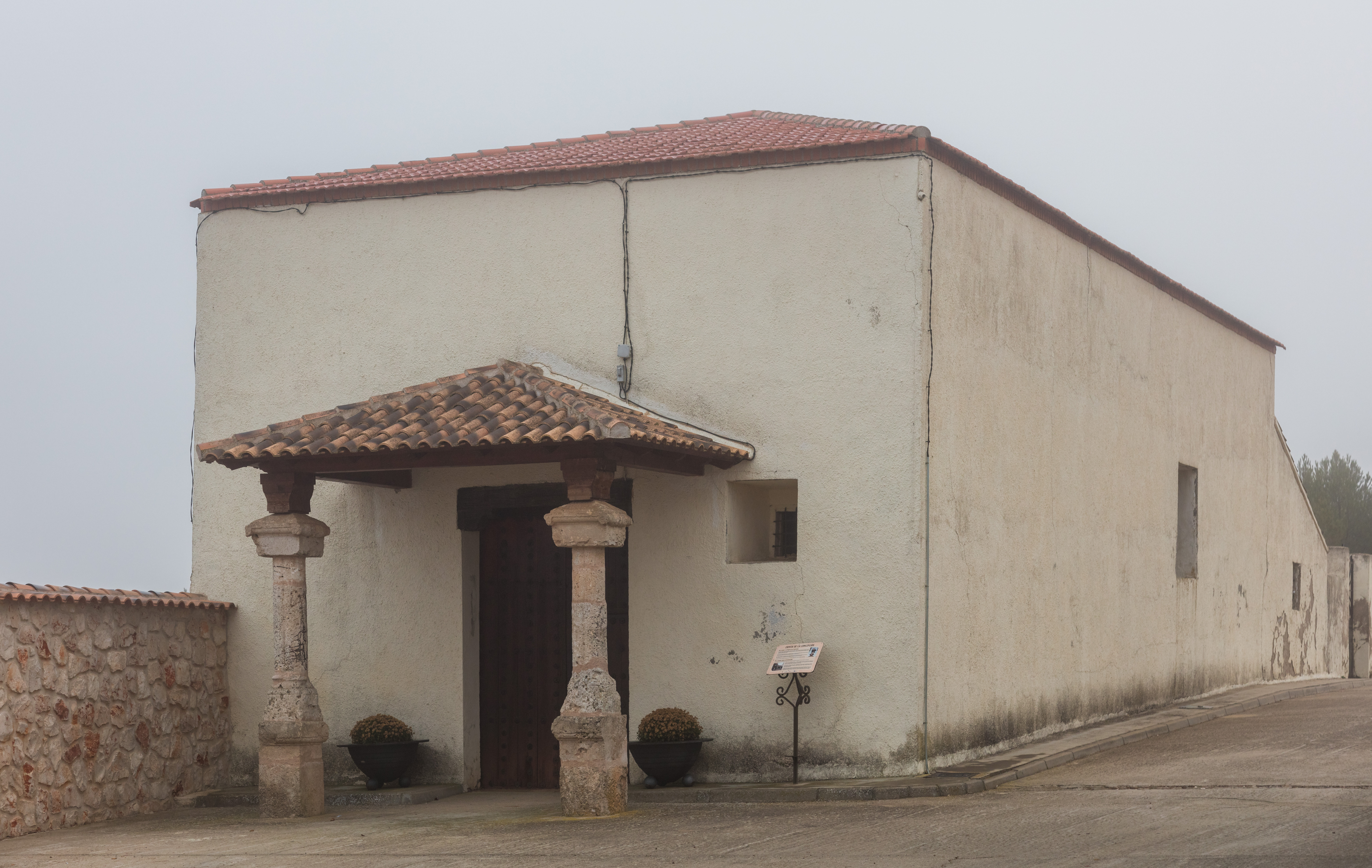 Hermitage of the Conception, Fuentenovilla, Guadalajara, Spain